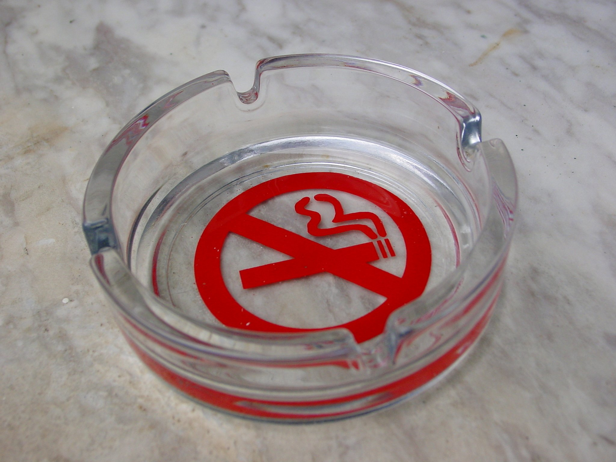 Ashtray with No Smoking sign, seen on Italian ferry. If this is a No Smoking zone, why are there ashtrays? If this is a Smoking zone, why does the ashtray have a No Smoking symbol?